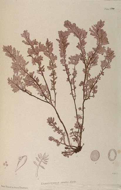 A 'nature print' , titled (indistinctly) [word?] printed by "Henry bradbury LOMENTARIA ovalis END. VOL 1 " It uses a direct method to detail a plant species that I haven't identified yet. Very likely a type of British seaweed. (Probably a synonym of Gastroclonium ovatum (Hudson) Papenfuss), see Algaebase